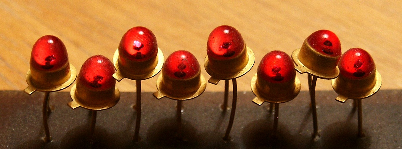 Early czechoslovak LED diodes Tesla LQ-100 from the beginning of 80's.